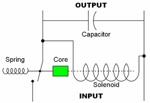 Дизајнирање_-_електромеханичких_регулатор_напона_етф.jpg